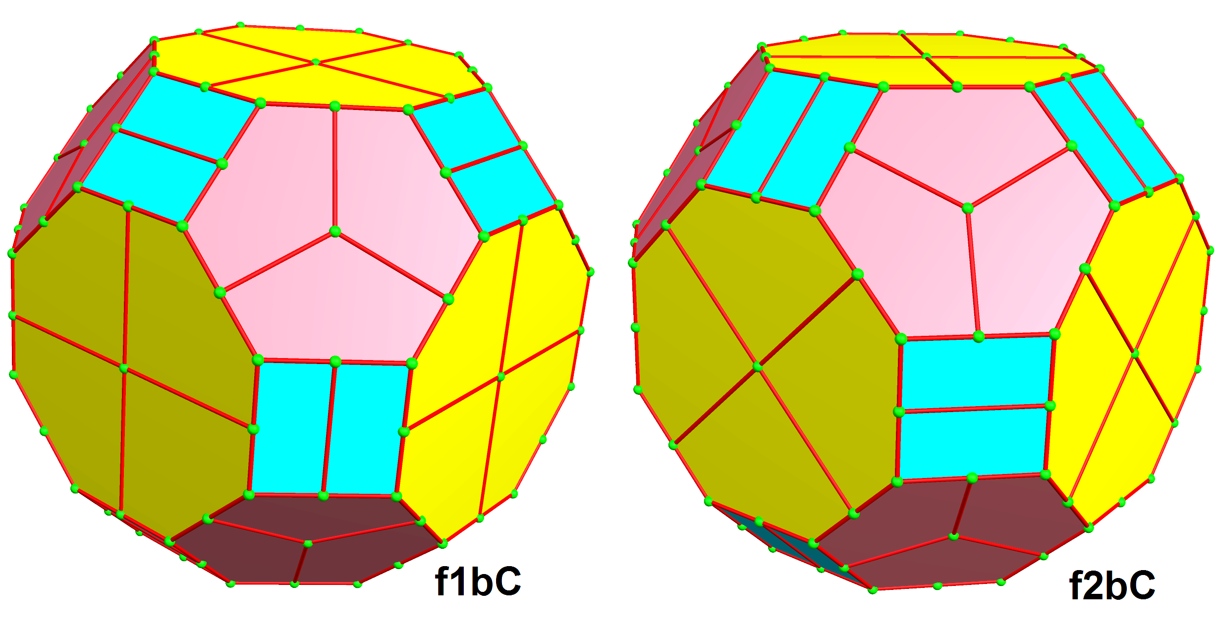 Conway polyhedron notation, two unique flex operators on a truncated cuboctahedron.